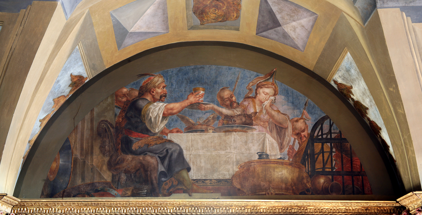 Václav Jindřich Nosecký and Michael Václav Halbax, The Death of Sophonisba, Zákupy Castle